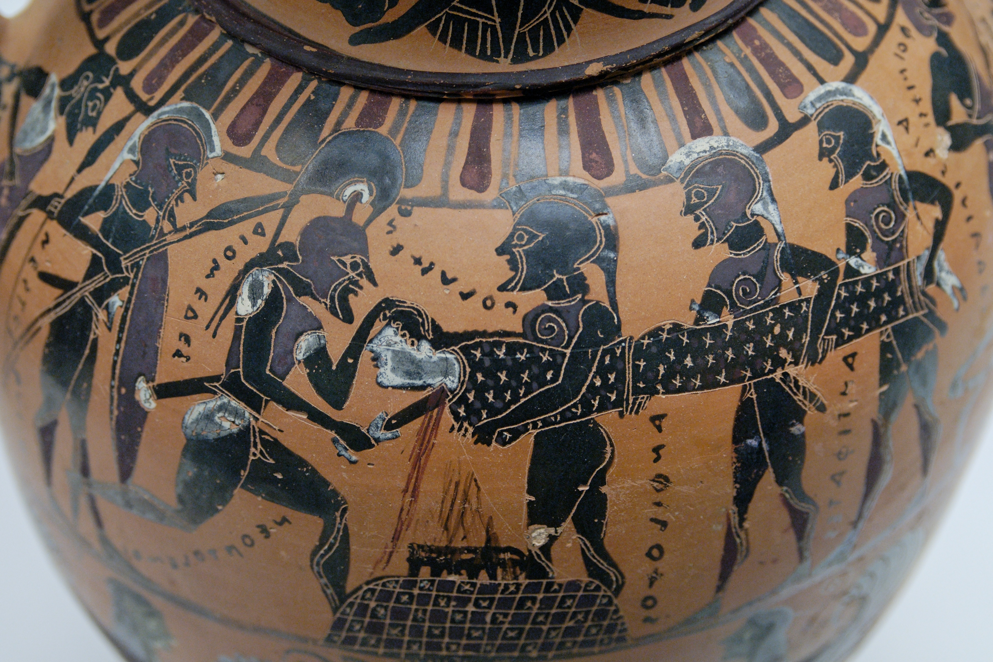 Neoptolemus sacrificing Polyxena after the capture of Troy. Attic black-figure Tyrrhenian amphora, ca. 570-550 BC. Said to be from Italy.